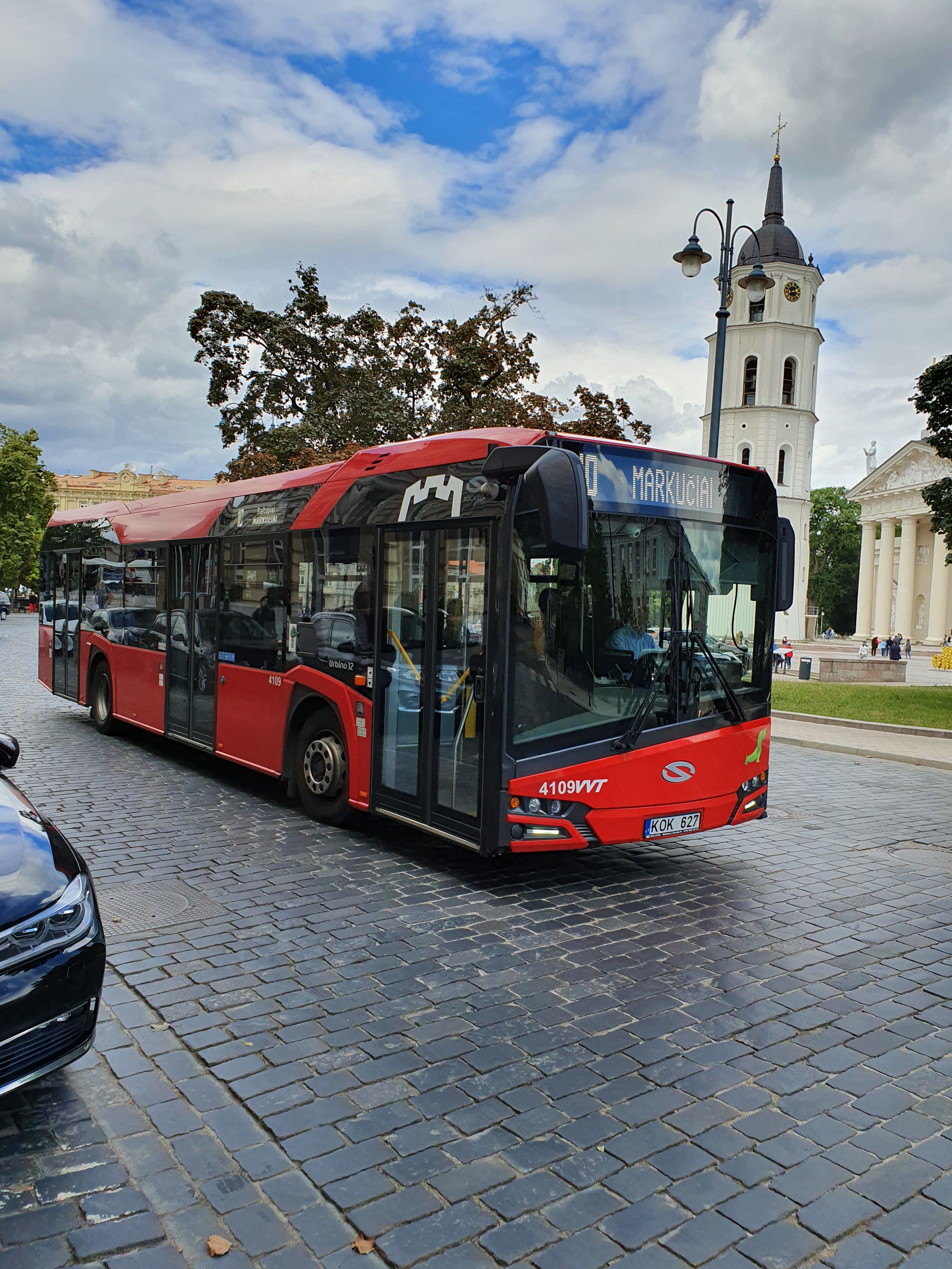 Solaris bus of the Vilnius public transport in Vilnius, Lithuania.